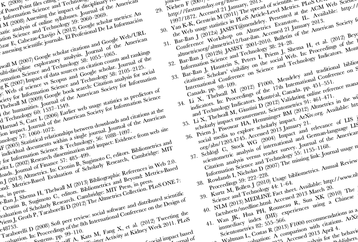 Screenshot of the references from the paper "Do Altmetrics Work? Twitter and Ten Other Social Web Services"